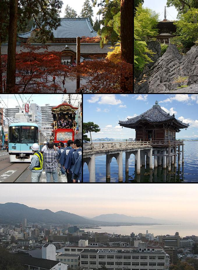 Enryaku-ji, Ishiyama-dera, Otsu Festival and Keishin Line, Ukimido, Central Otsu